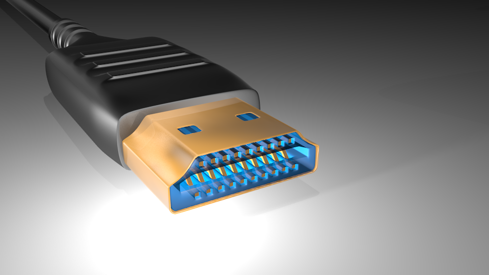 hdmi